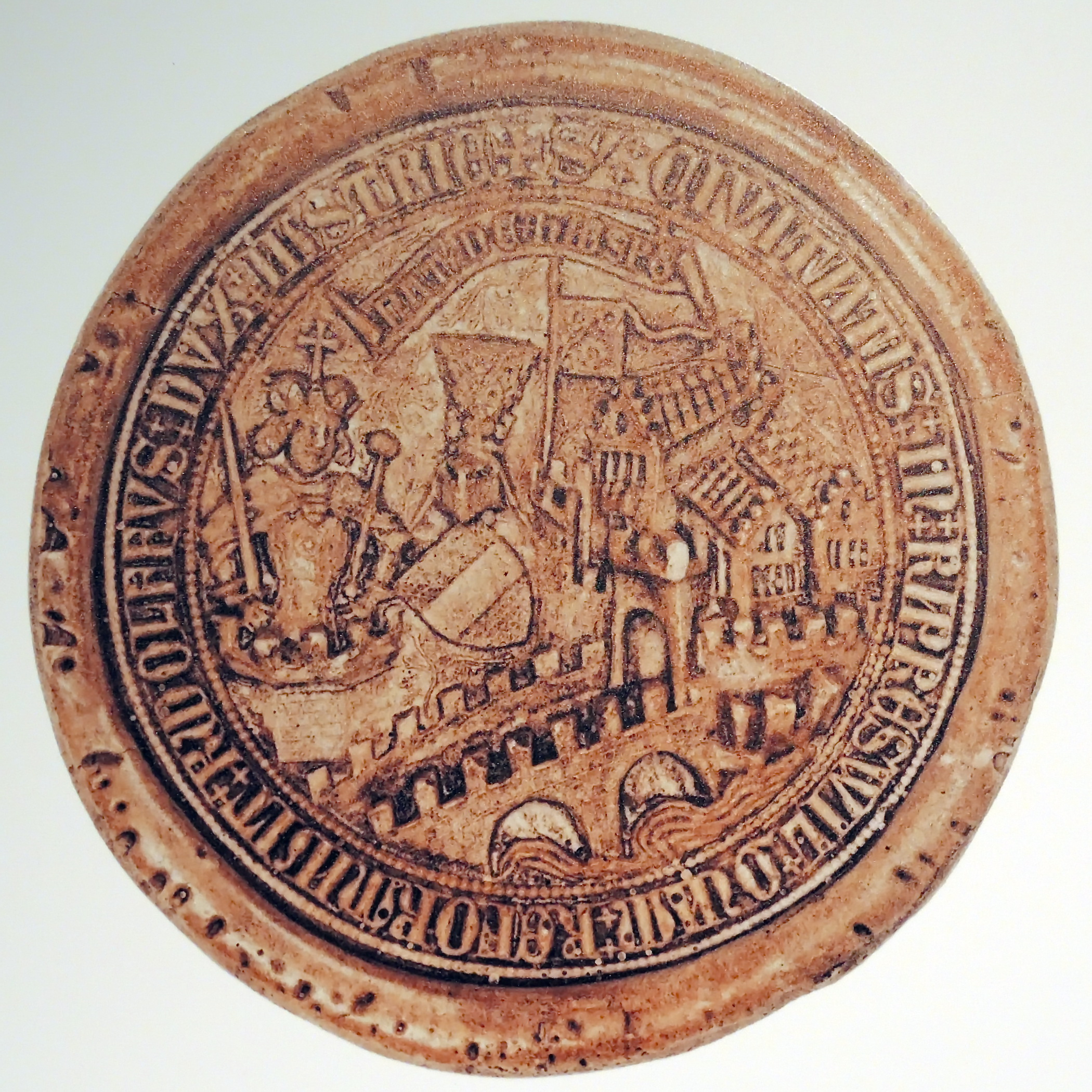 Stadtmuseum Rapperswil (SG) : Rudolf IV, Duke of Austria's City seal with Veduta of Rapperswil town and bridge.